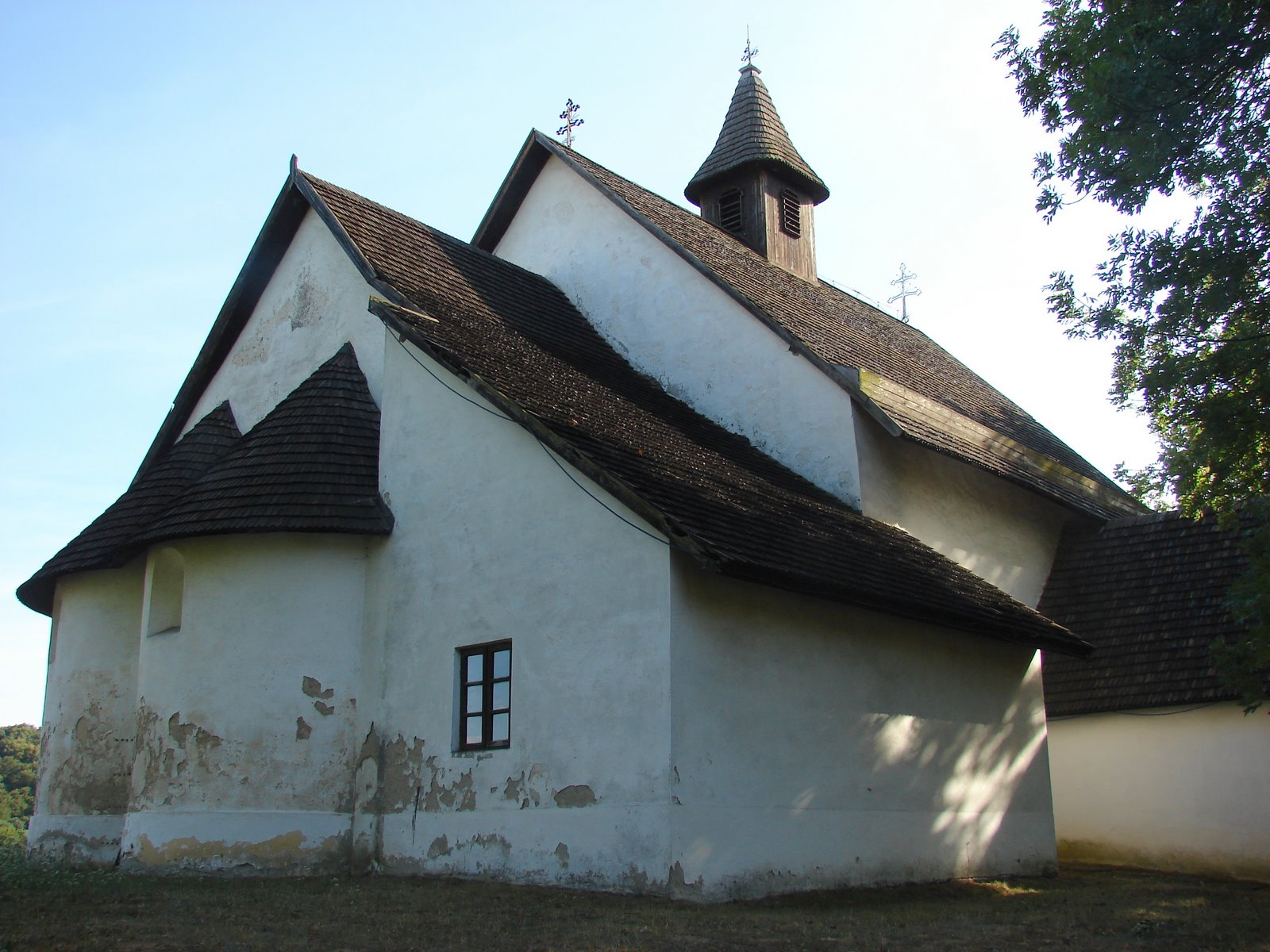 Medieval twin sanctuary church in Tornaszentandrás